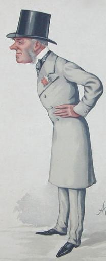 Caricature of George Coventry, 9th Earl of Coventry. Caption read "Covey".